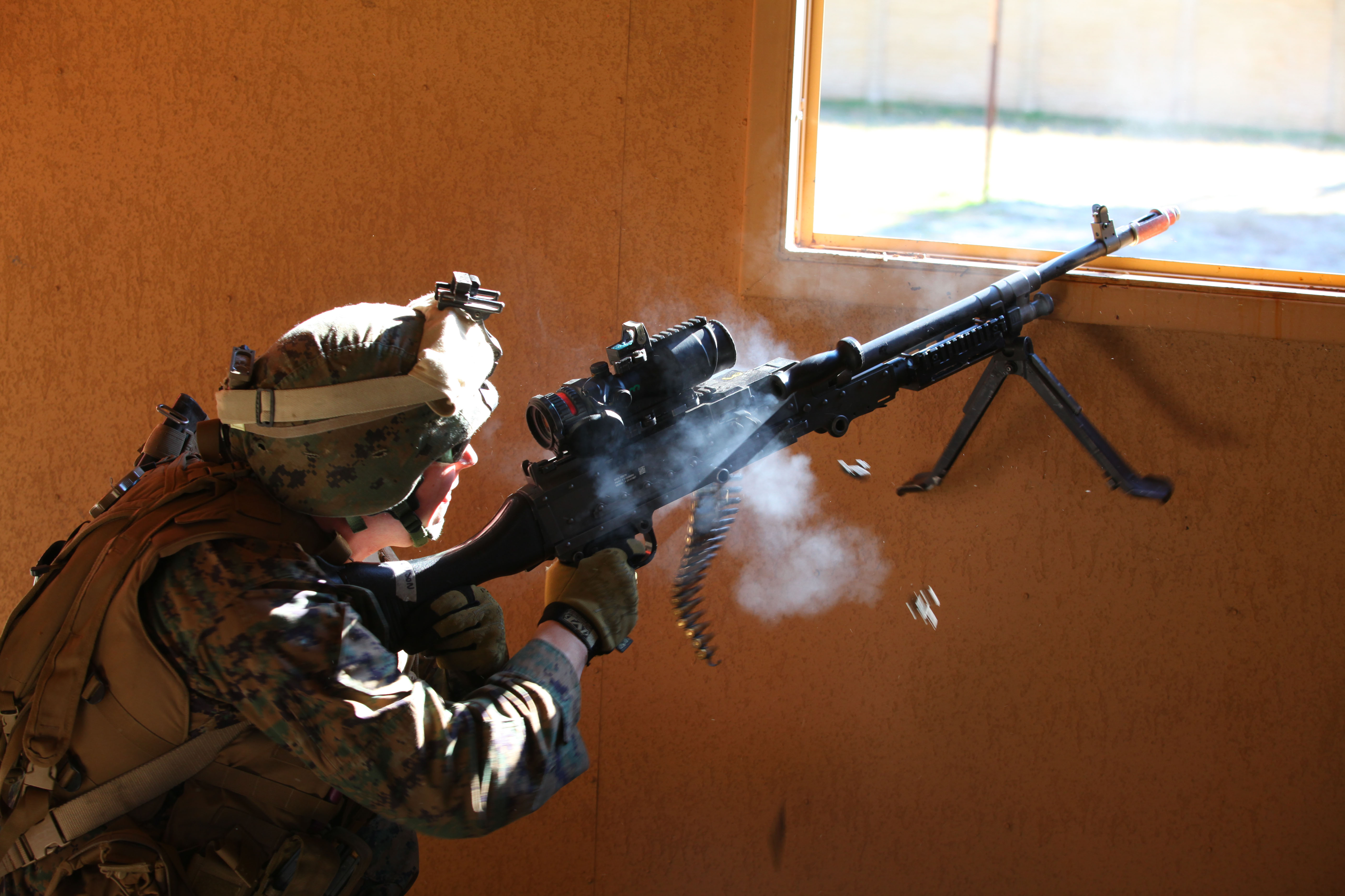 A Marine with Bravo Company, Battalion Landing Team 1st Battalion, 2nd Marine Regiment, 24th Marine Expeditionary Unit, provides cover fire during a raid training scenario at the Operations in Urban Terrain training facility at Camp Lejeune, N.C., on Dec. 18, 2011. The Marines were inserted into Camp Lejeune from amphibious ships of Amphibious Squadron 8 positioned 3-5 miles off the coast of North Carolina with the task of assaulting an enemy position inland. The training was a culminating event as part of Composite Training Unit Exercise a three-week exercise with 24th Marine Expeditionary Unit embarked at sea to develop cohesion with Amphibious Squadron 8 in conducting amphibious operations, crisis response, and limited contingency operations while operating from the sea.